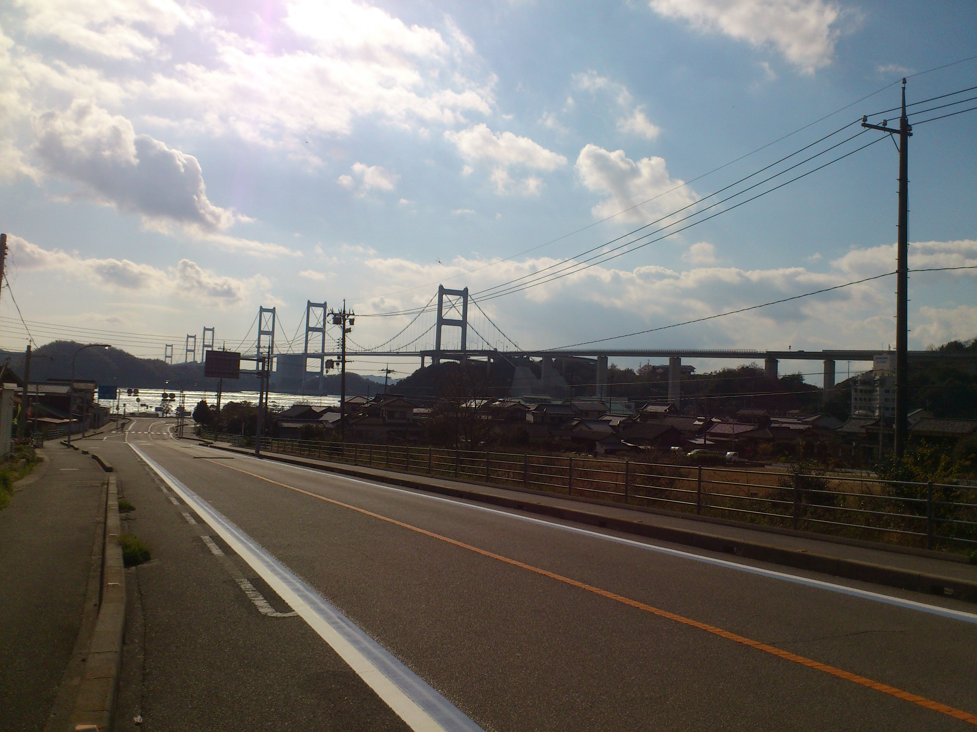 Kurushima-Kaikyō Bridge from Ōshima. Yoshiumichōmyō, Imabari, Ehime pref., Japan